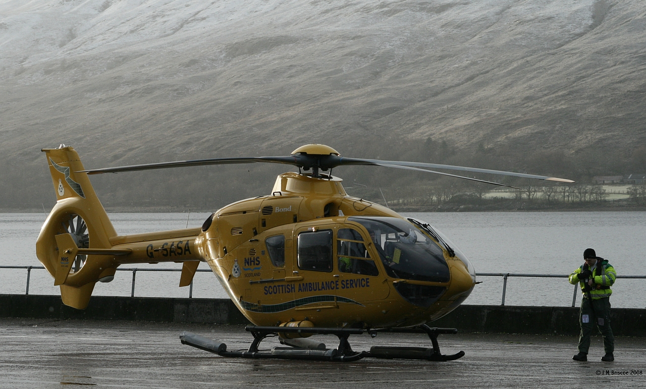 Scottish Ambulance Service Air Ambulance EC-135 G-SASA waiting at Fort William West End car park.